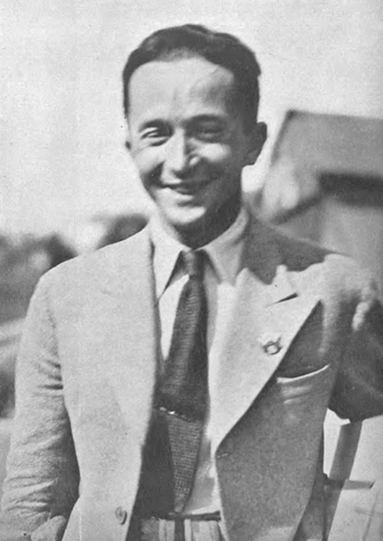 Jerzy Bajan, Polish aviator, winner of Challenge 1934